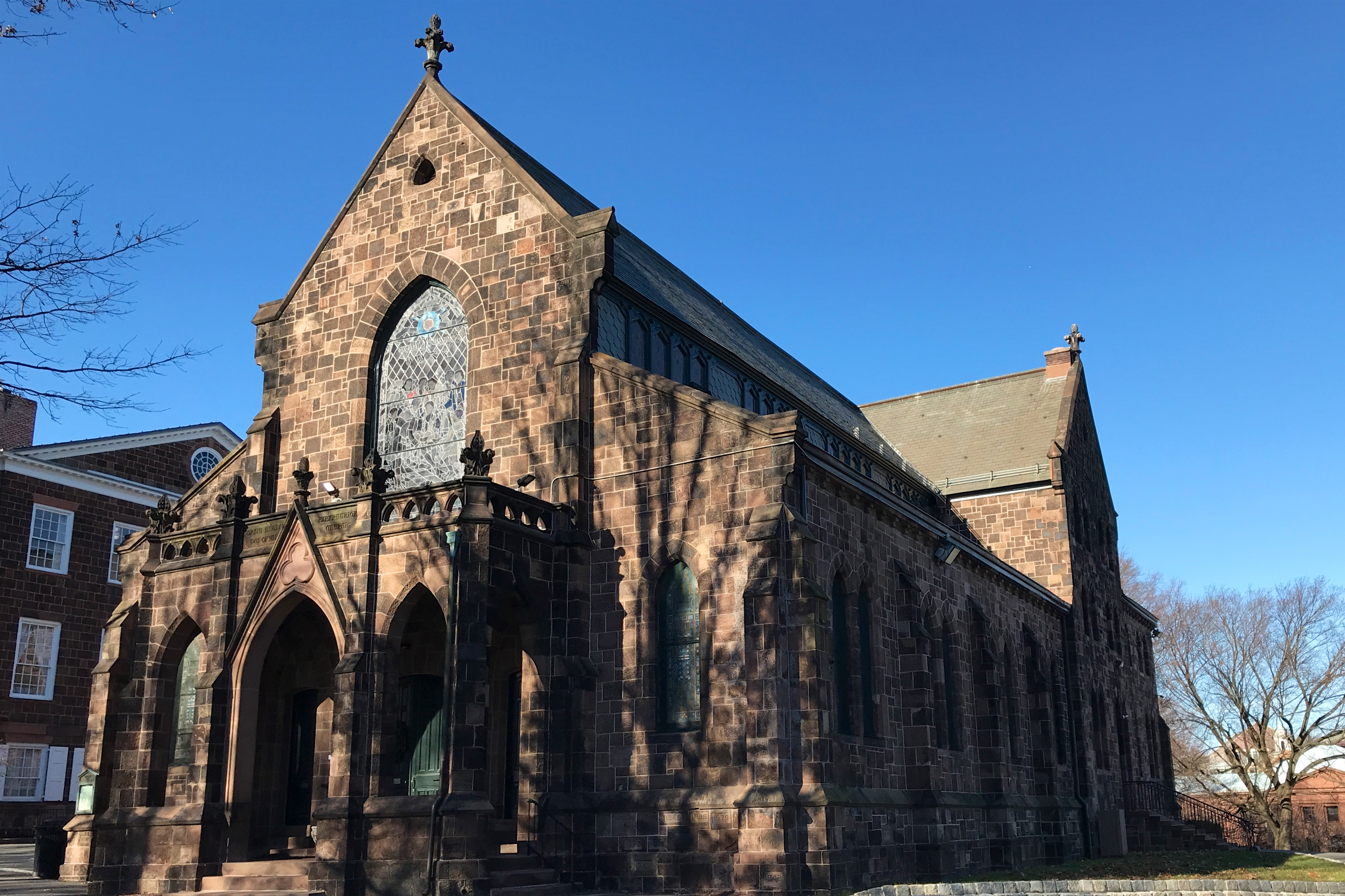 Kirkpatrick Chapel in New Brunswick, New Jersey. Contributing property of Queens Campus, Rutgers University.